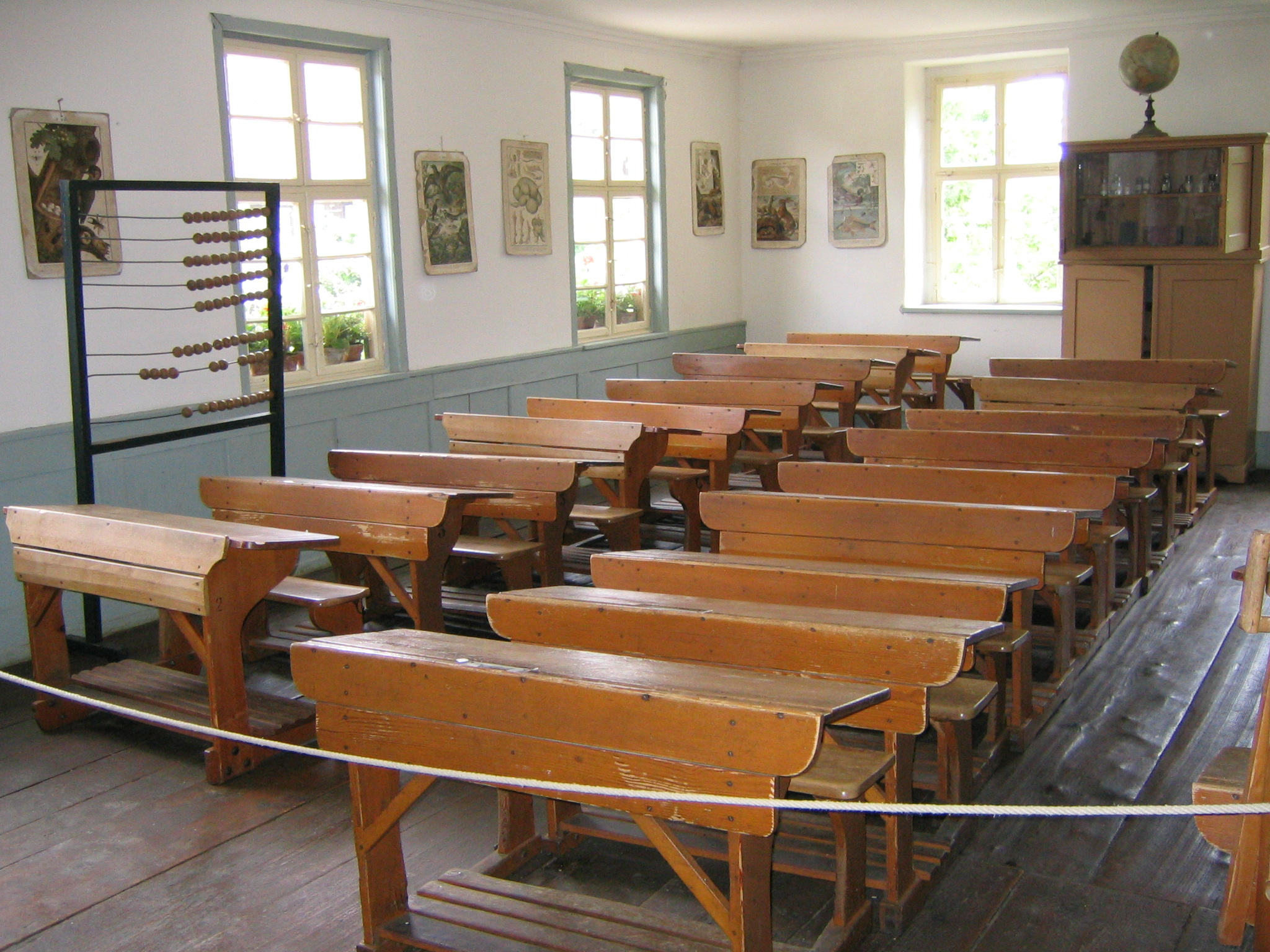 Class room at the Freilichtmuseum Neuhausen ob Eck